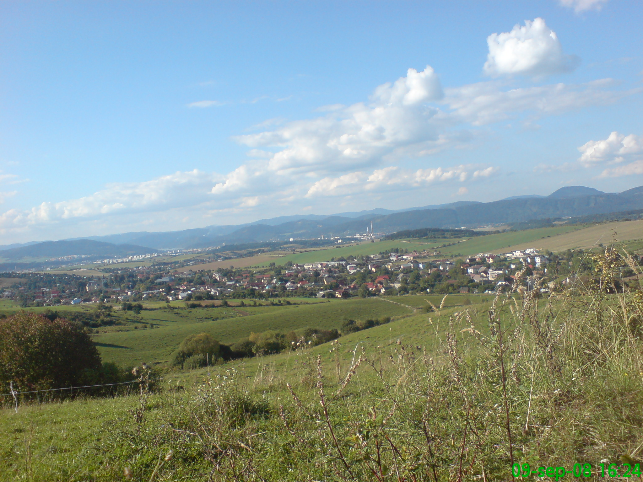 Visnove od tunela